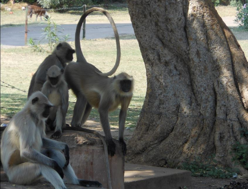 Hanuman langur, clicked in Udaipur city , is widespread in South Asia